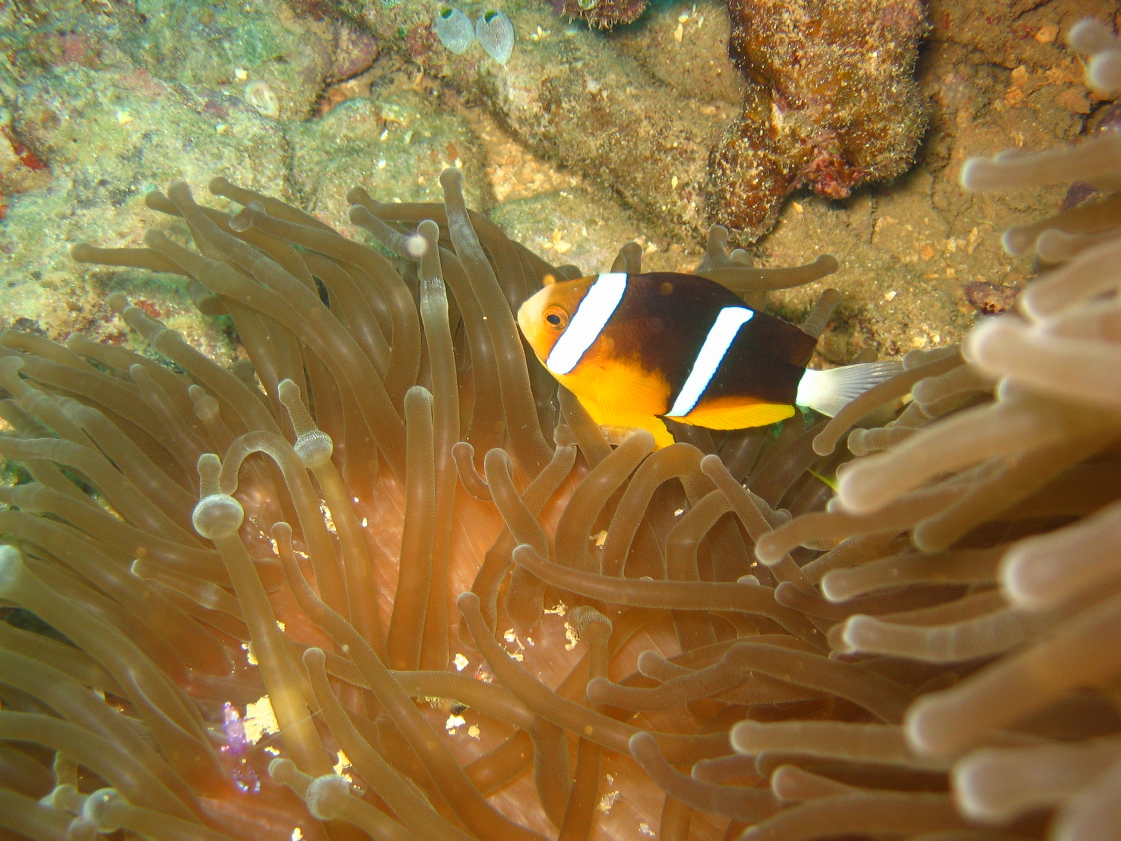 Orange-finned clownfish (Amphiprion chrysopterus) with sea anemone Image ID: reef0528, NOAA's Coral Kingdom Collection Location: Chuuk, Federated States of Micronesia